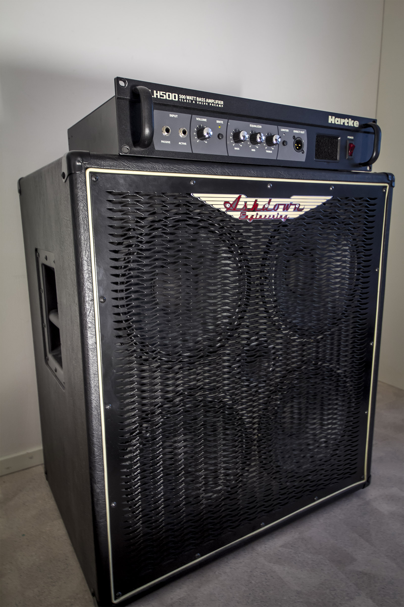 Hartke Hartke LH500 500 Watt Bass Amplifier, Class A Preamp Ashdown MAG 414T Deep 650W 4 x 10 + tweeter 4 Ohm bass cabinet